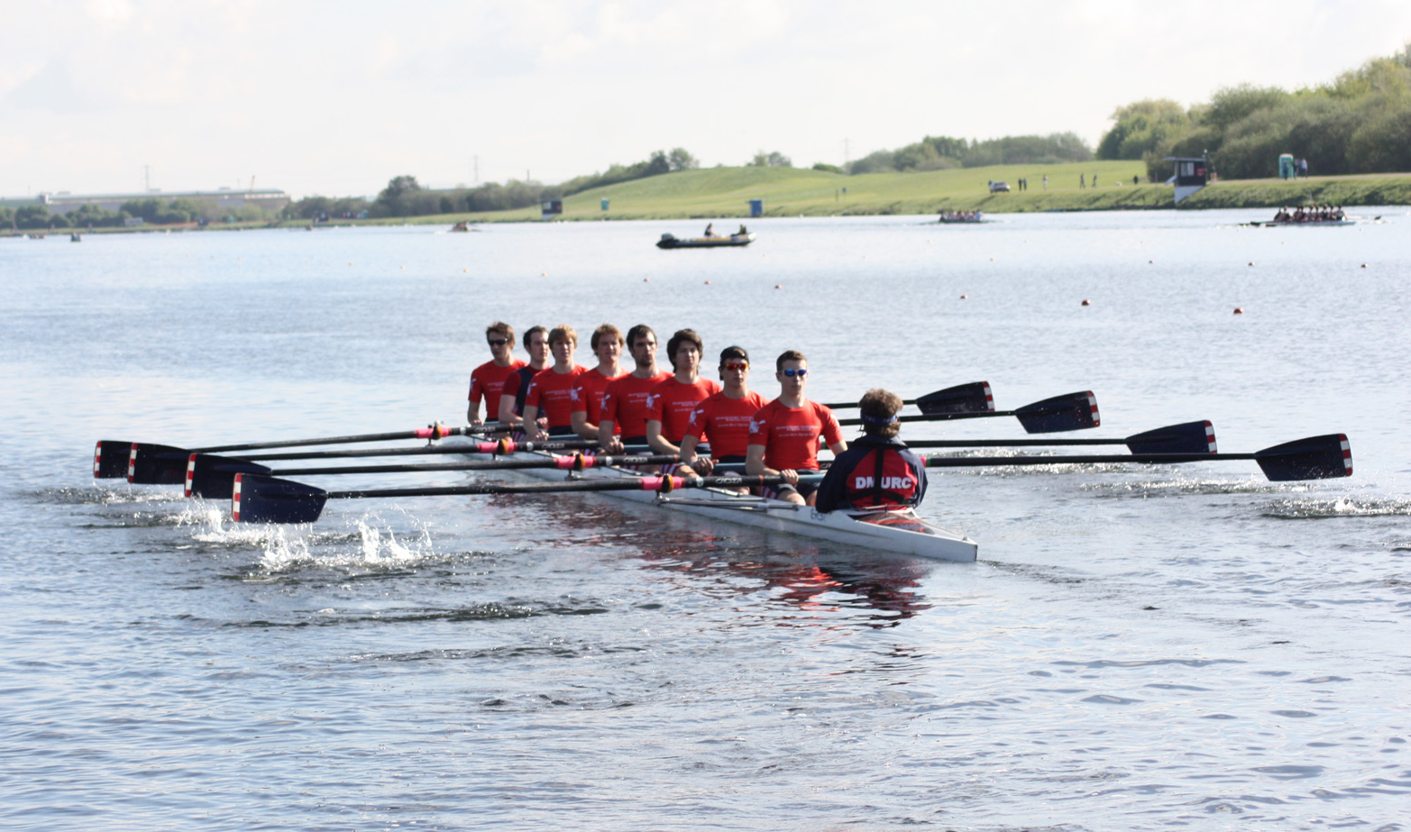 The De Montfort University Men's Senior 8+ on the way to some heats at BUCS Regatta 2010